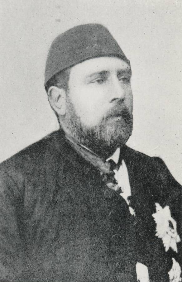 A picture of the Khedive Ismail.